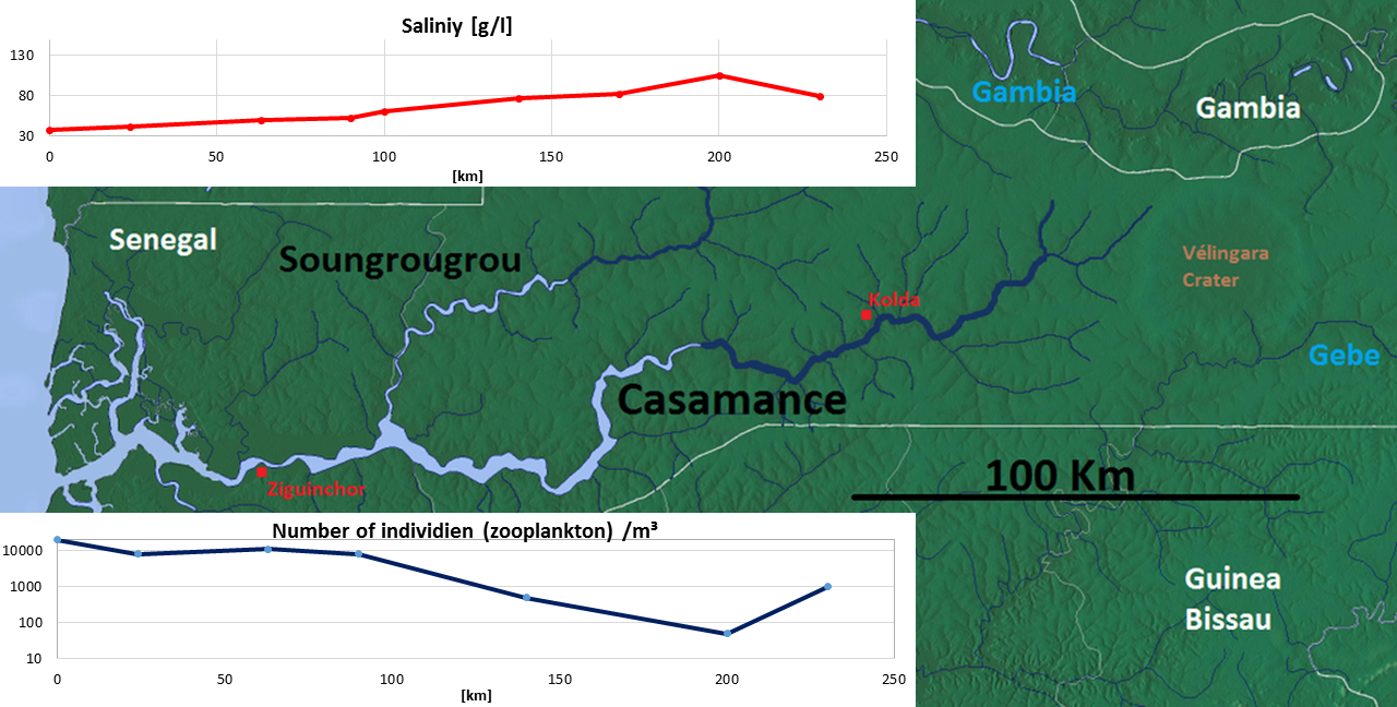 The Casamance River system with salinity and number of individien zooplankton.